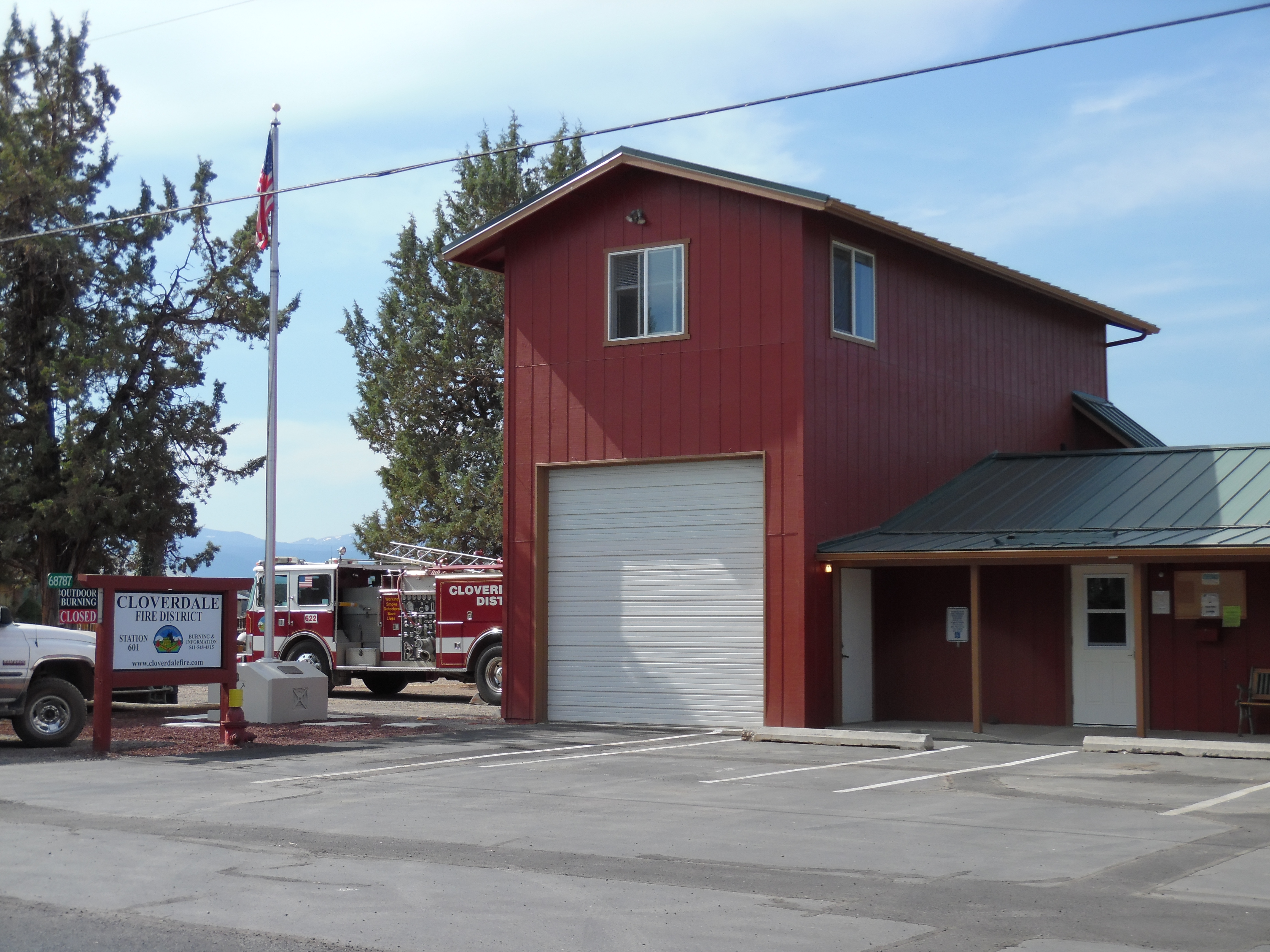 Cloverdale fire station in rural Deschutes County near Sisters, Oregon